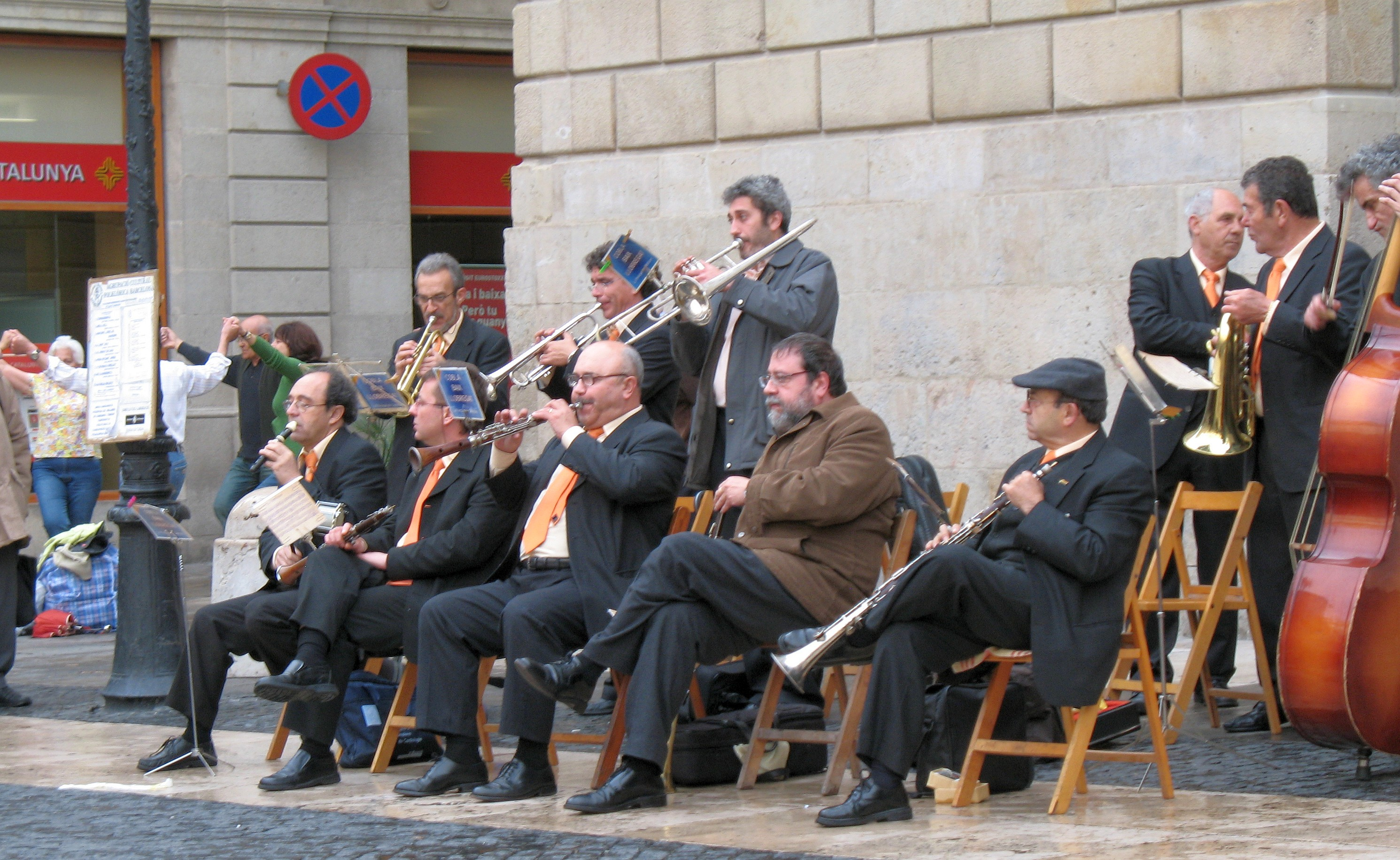 Sardana band "Cobla Baix Llobregat" playing on Plaça de Sant Jaume in front of the Palau de la Generalitat in Barcelona